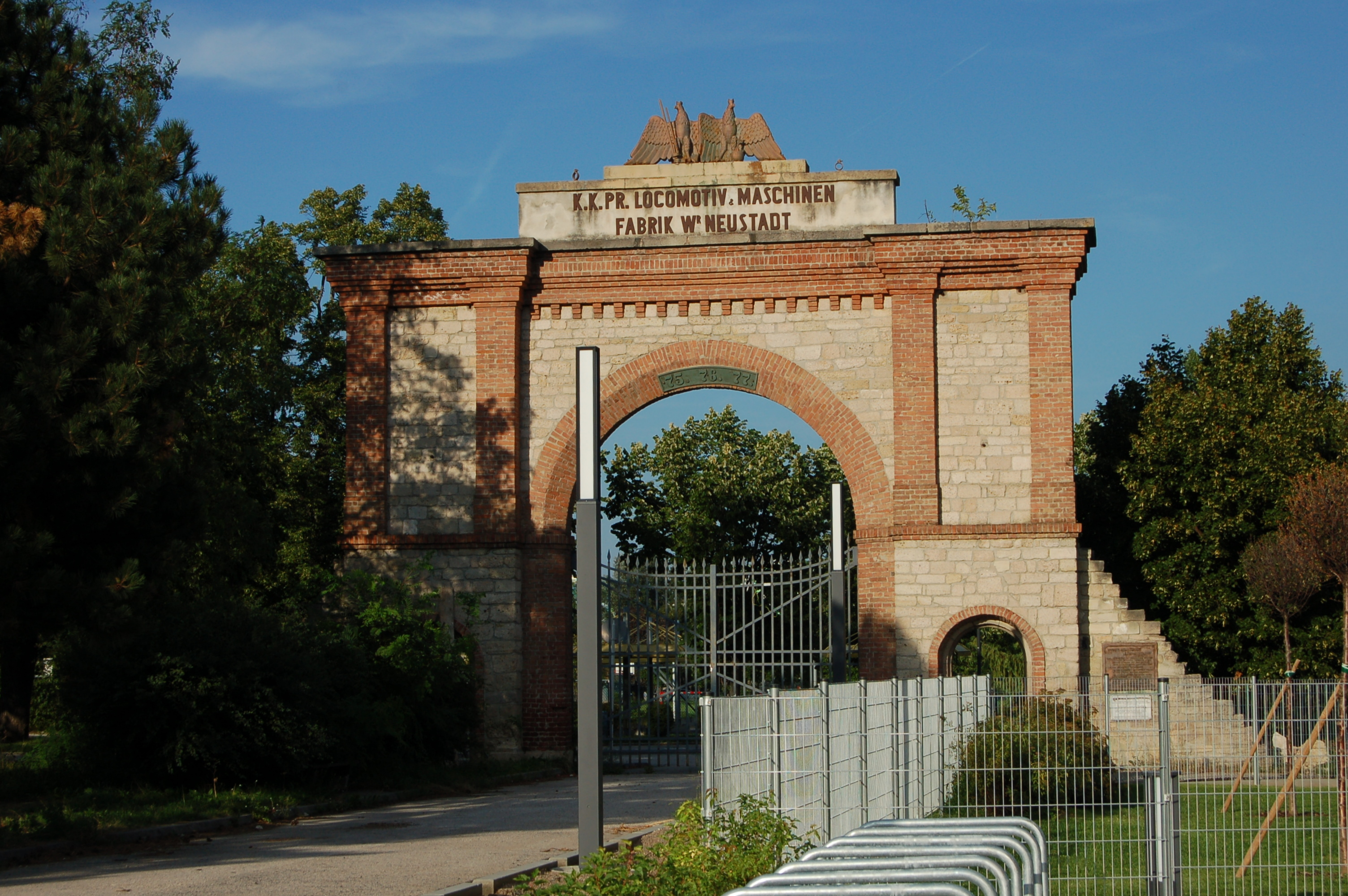 Gate of former Wiener Neustadt locomotive factory